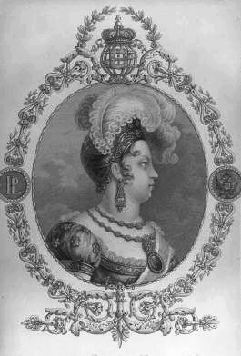 Maria Leopoldine of Austria, Empress of Brasilia, daughter of Holy Roman Emperor Frances II. (I.) of Austria and Princess Maria Theresa of Naples-Sicily, wife of King Pedro I. of Brasilia, mother of Queen Maria II. da Gloria of Portugal and King Pedro II. of Brasilia, 1820, Österreichische Nationalbibliothek, Wien